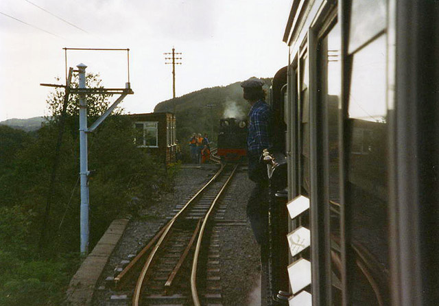 Rhiw Goch passing loop on the Ffestiniog Railway. The engine Sgt. Murphy waits while the down train passes.